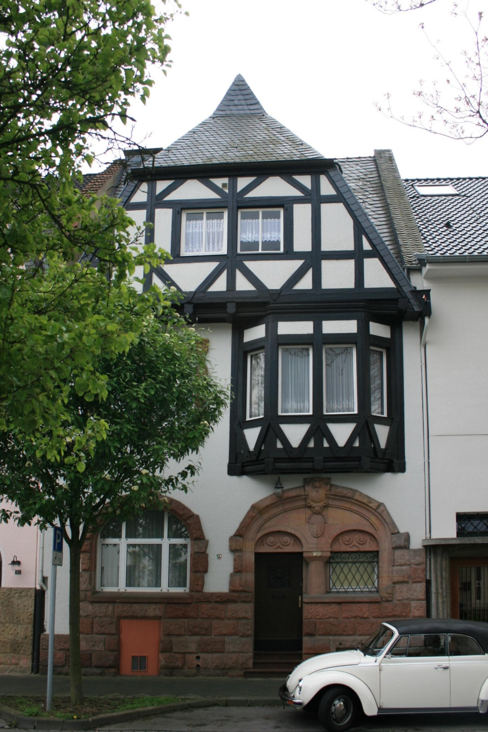 Cultural heritage monument No. R 085 in Mönchengladbach